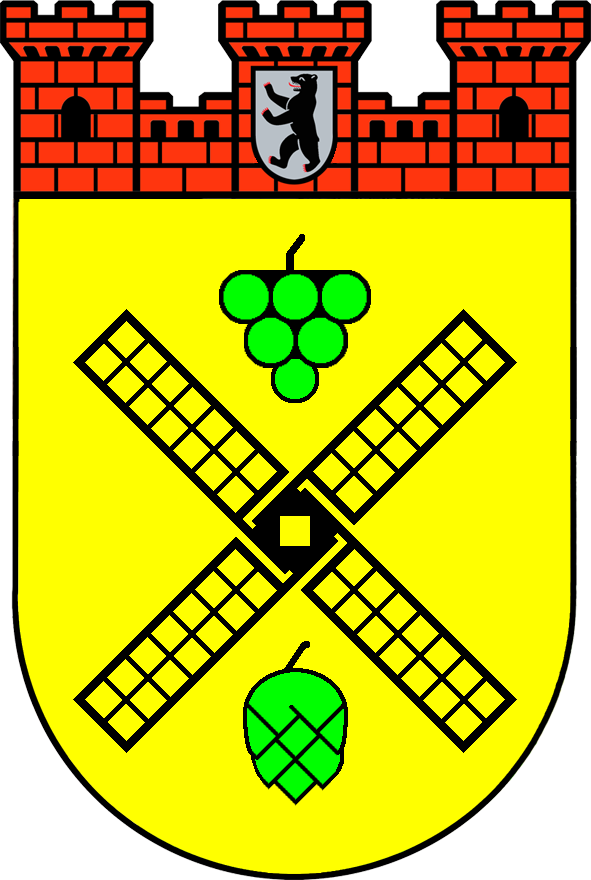 Coat of arms of Prenzlauer Berg, a former Borough of Berlin